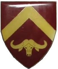 SADF era Senekal Commando emblem